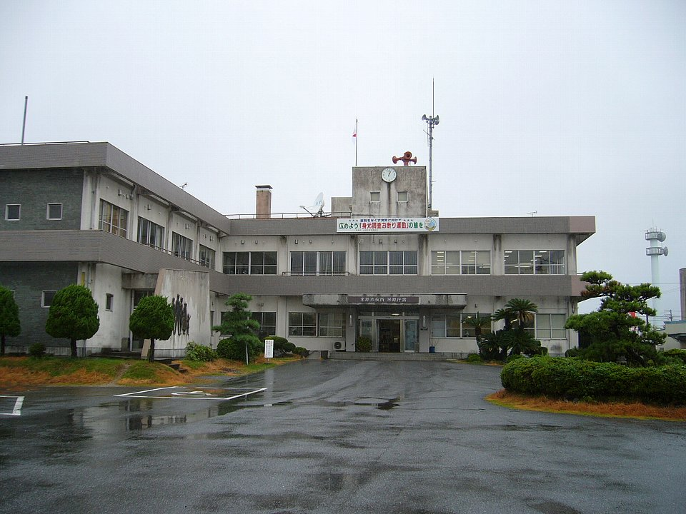 Maibara City Hall in Shiga Prefecture, Japan